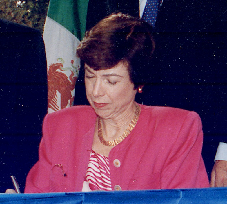 Carla Anderson Hills, U.S. Trade Representative. At the initialing ceremony for the North American Free Trade Agreement in San Antonio, TX, October 7.